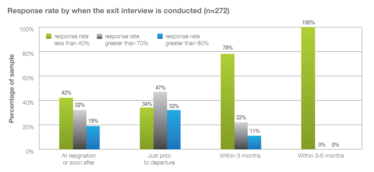 The percentage of departing employees who successfully complete an exit interview, according to when the interview was conducted.